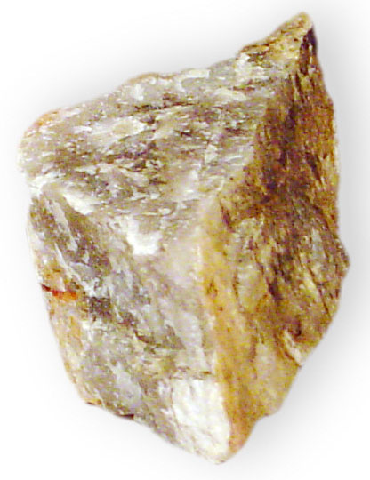 Eucryptite. From the Etta Mine, Keystone, Pennington County, South Dakota. These mineral images are free to use how you wish.